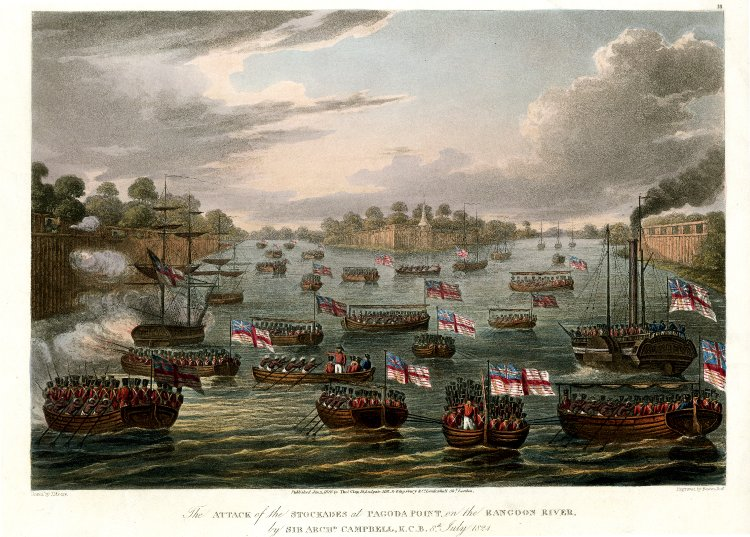 The Attack of the Stockades at Pagoda Point, on the Rangoon River, by Sir Archibald Campbell, K.C.B. 8th July 1824 / Rangoon views, and combined operations in the Birman empire. Museum number 1872,0608.218 Description Recto Plate 18 (No 18 of Series 1): a number of British boats on the river, full of soldiers onboard, firing towards the stockades on the left, the river split in two in the background; after Lt Joseph Moore. 1826 Hand-coloured aquatint with etching